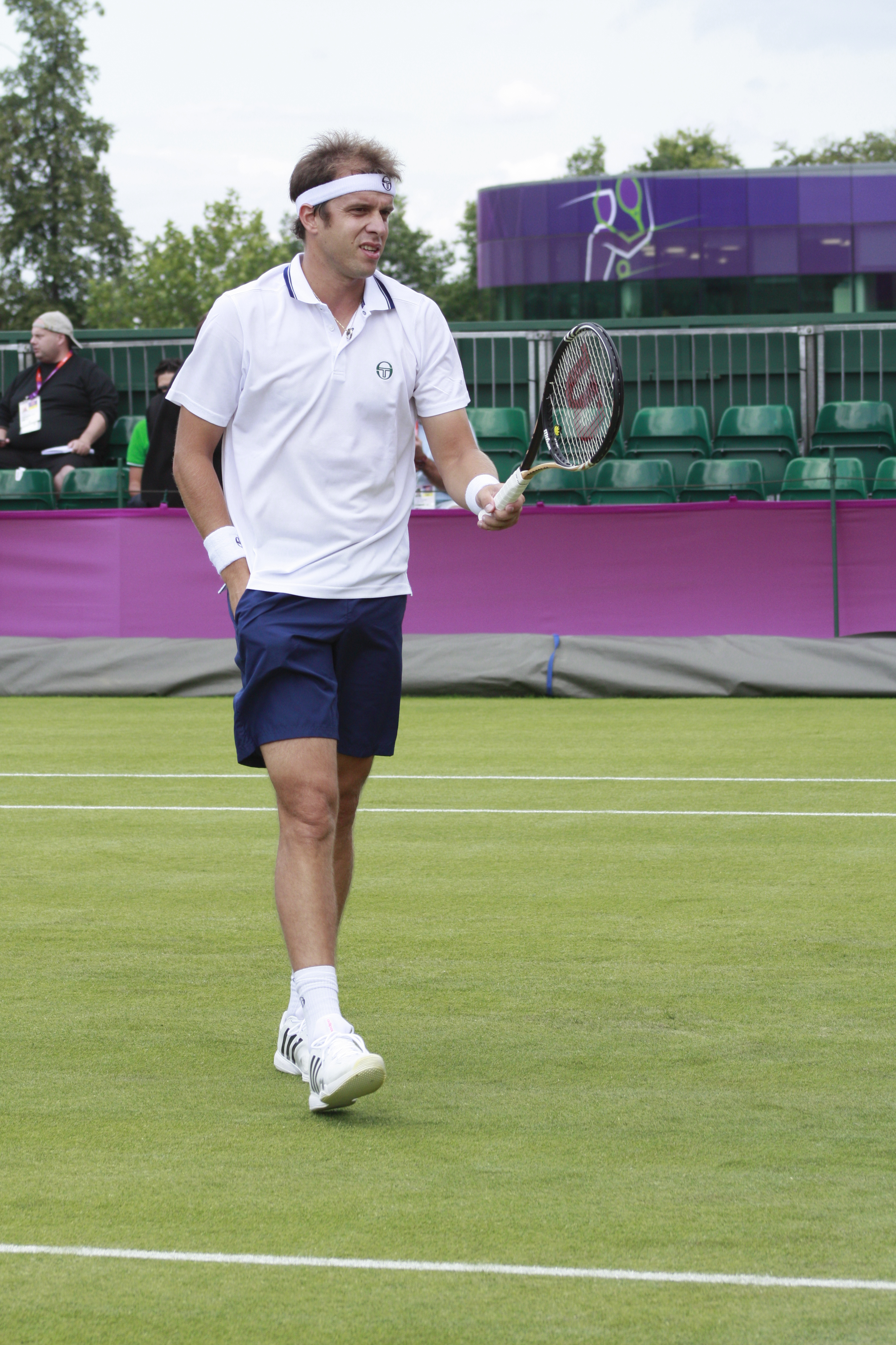 Gilles Muller during the 2012 London Olympic Games